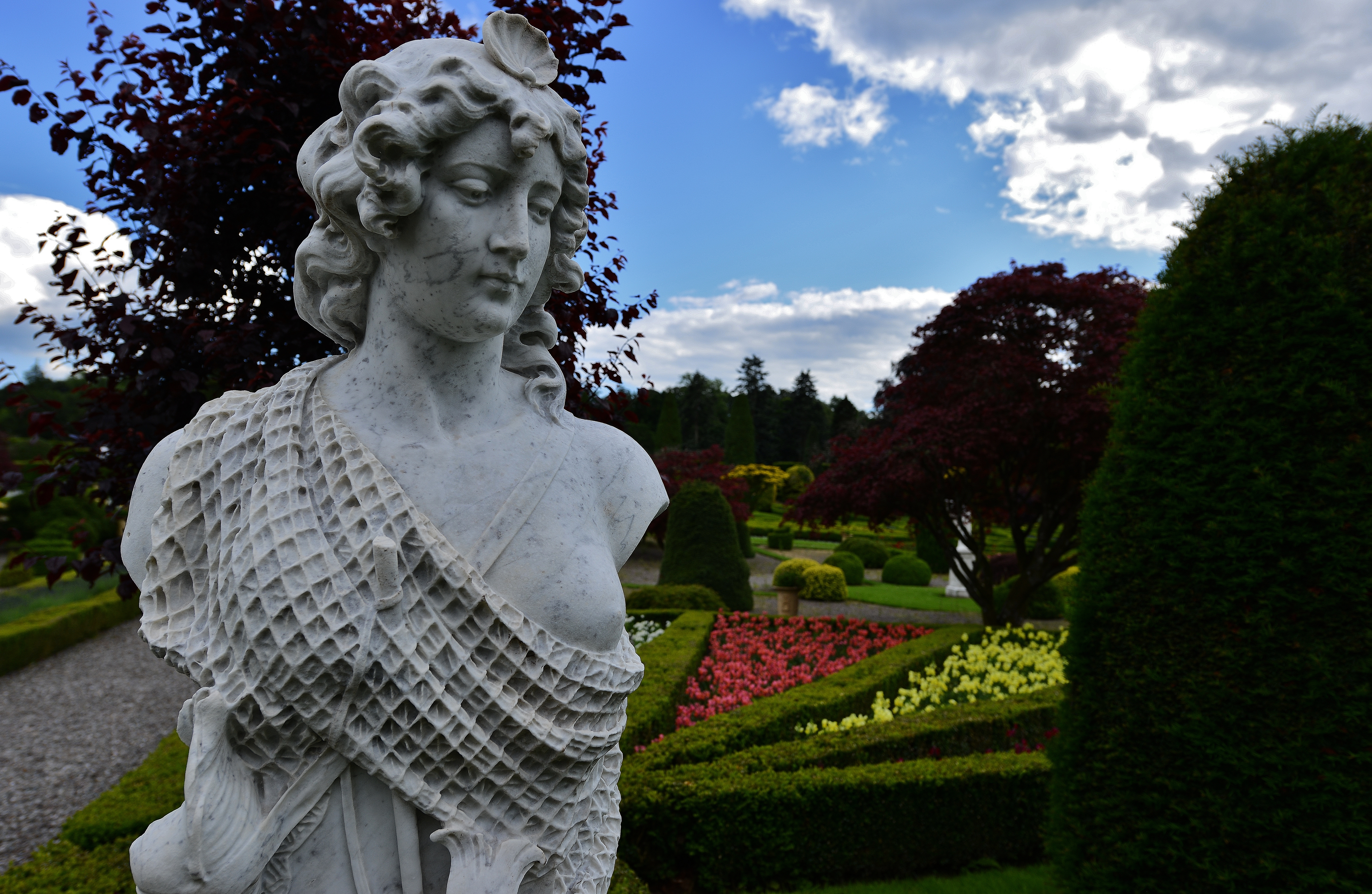 Photo by Michael Garlick